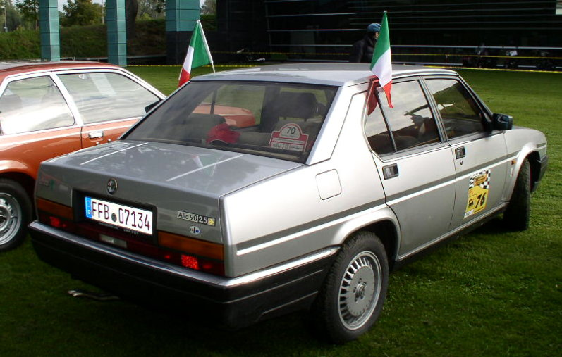 Alfa Romeo Alfa 90